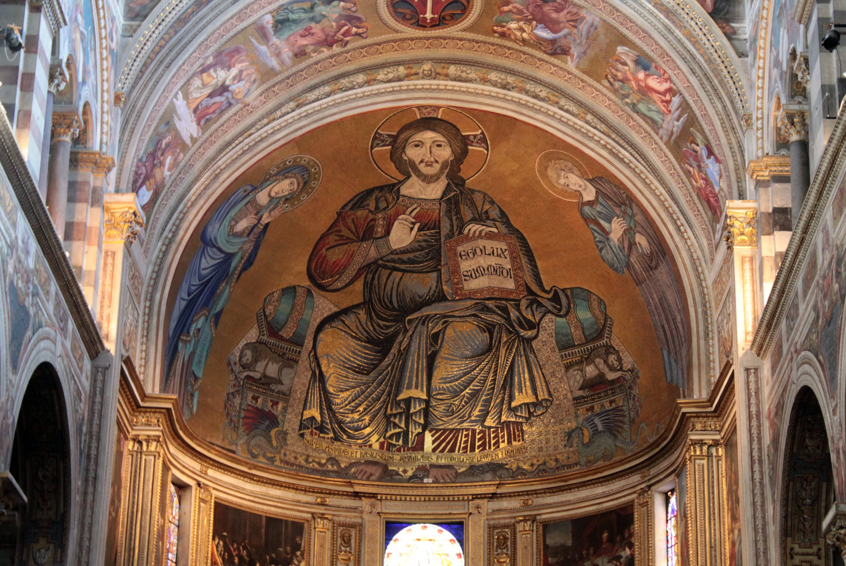 Christ in Majesty (Cimabue) in the Duomo di Pisa